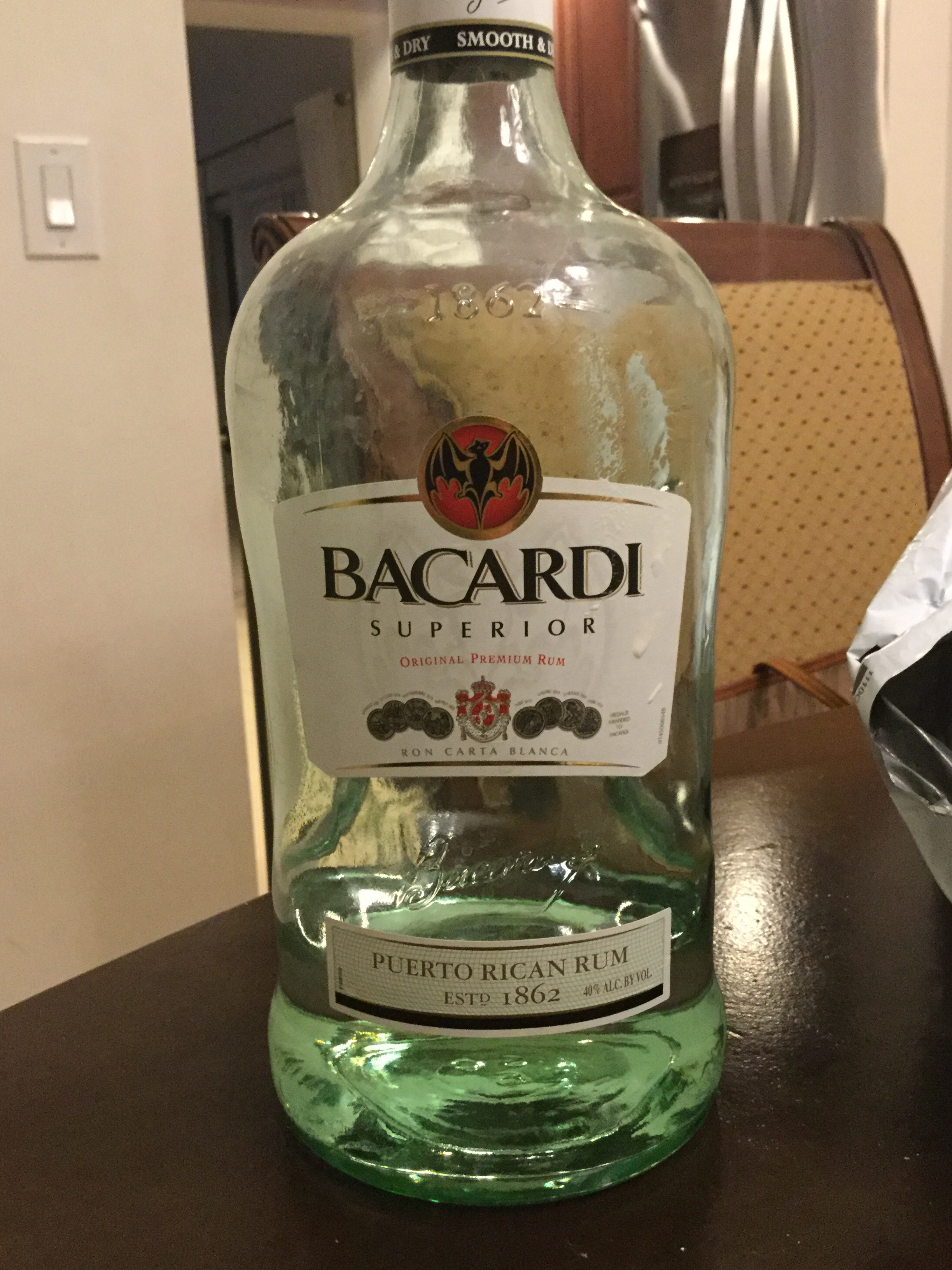 Puerto Rican Rum Bacardi Superior